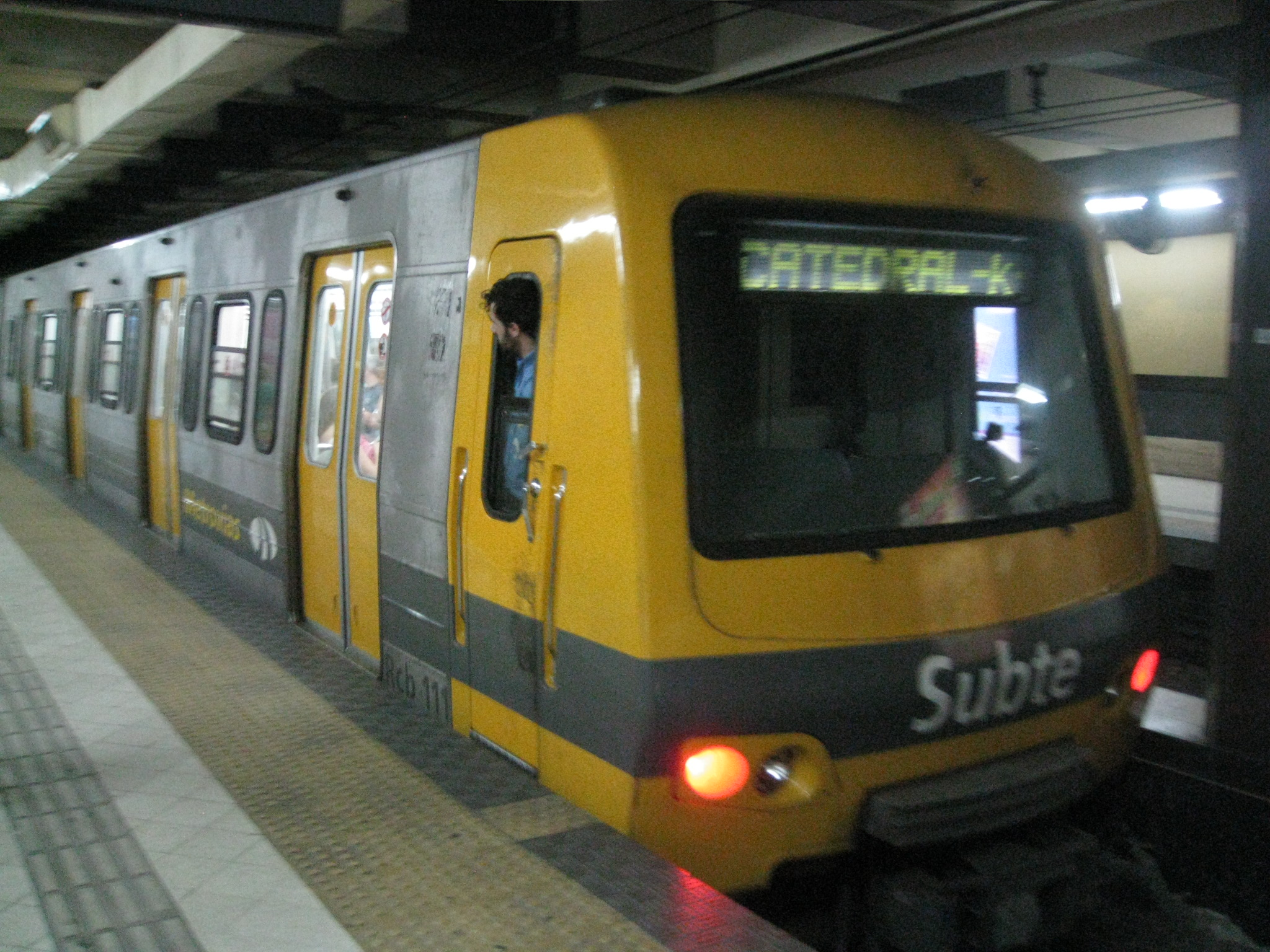 Fleets on subway line D in Buenos Aires.